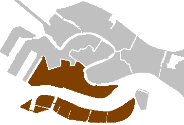 Giudecca island and Dorsoduro District — composing the Dorsoduro sestiere of Venice.